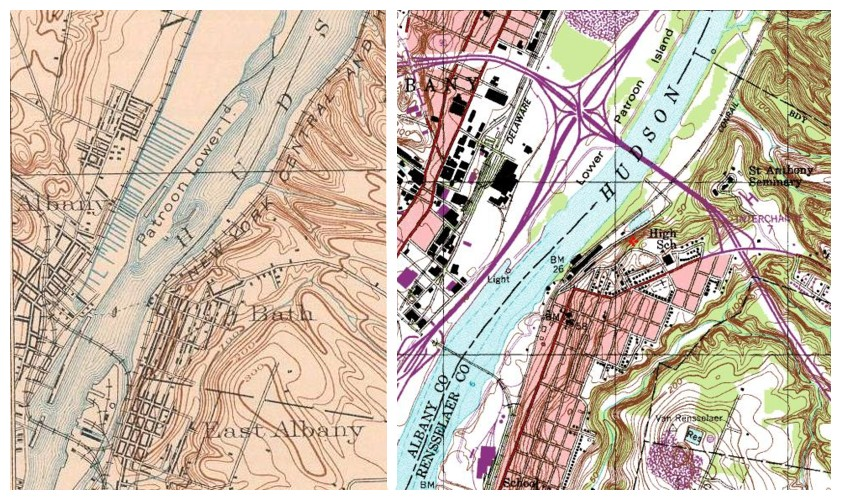 Source: Maps taken from the public domain USGS Digital Raster Graphic files, map on left is from 1927, map on right is from current Albany quadrangles. Map on the Left shows the former Lower Patroon Island, an Island in the Hudson River, just north of Albany, New York. Map on the right shows that the highway interchange of I-787 (North-South) and I-90 (East-West), with the Patroon Island Bridge partially on the grounds of the former Lower Patroon Island.